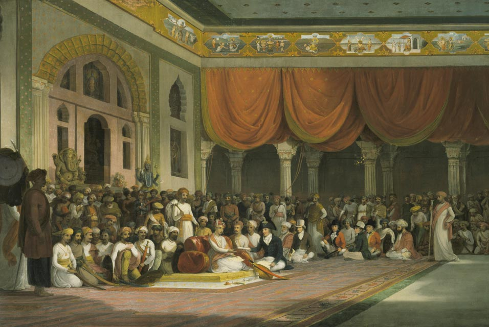 Sir Charles Warre Malet, Concluding a Treaty in 1790 in Durbar with the Peshwa of the Maratha Empire, oil on cancas painting by Thomas Daniell, 1805, Tate Gallery